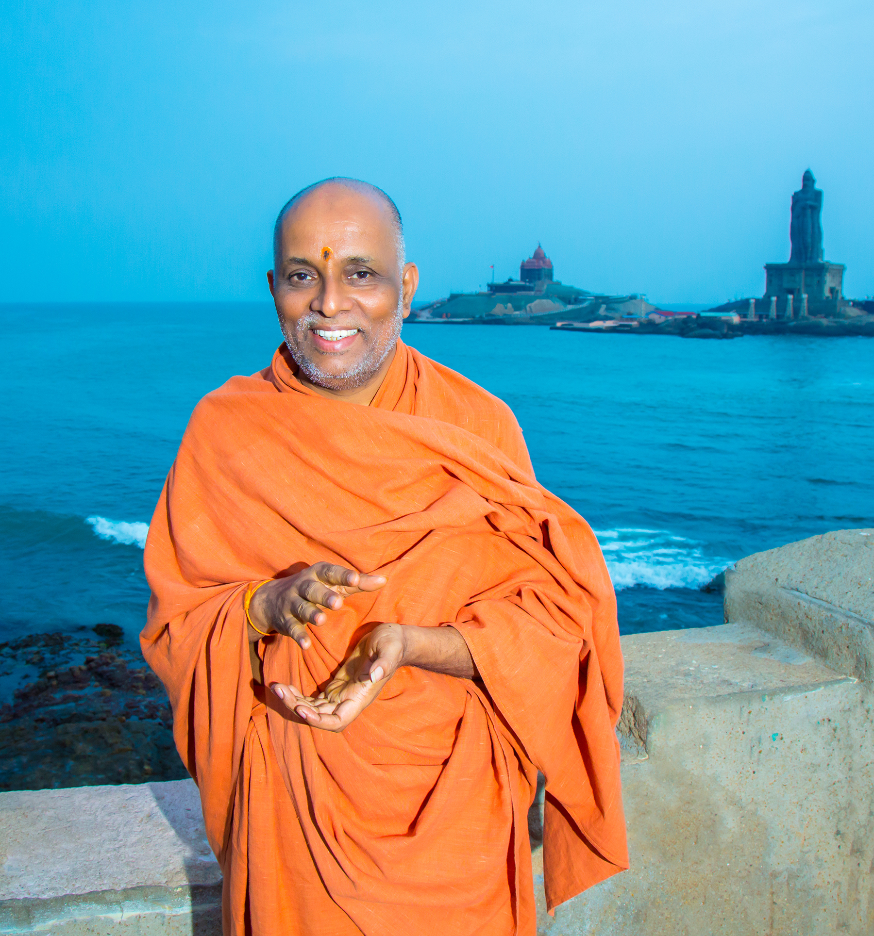 ಗುರುದೇವದತ್ತ ಸಂಸ್ಥಾನಮ್